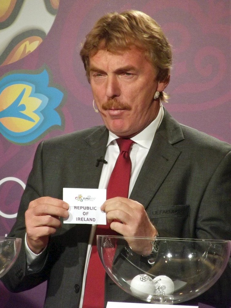 Zbigniew Boniek during UEFA EURO 2012 qualifying play-offs draw, that took place in Sheraton Hotel in Cracow.